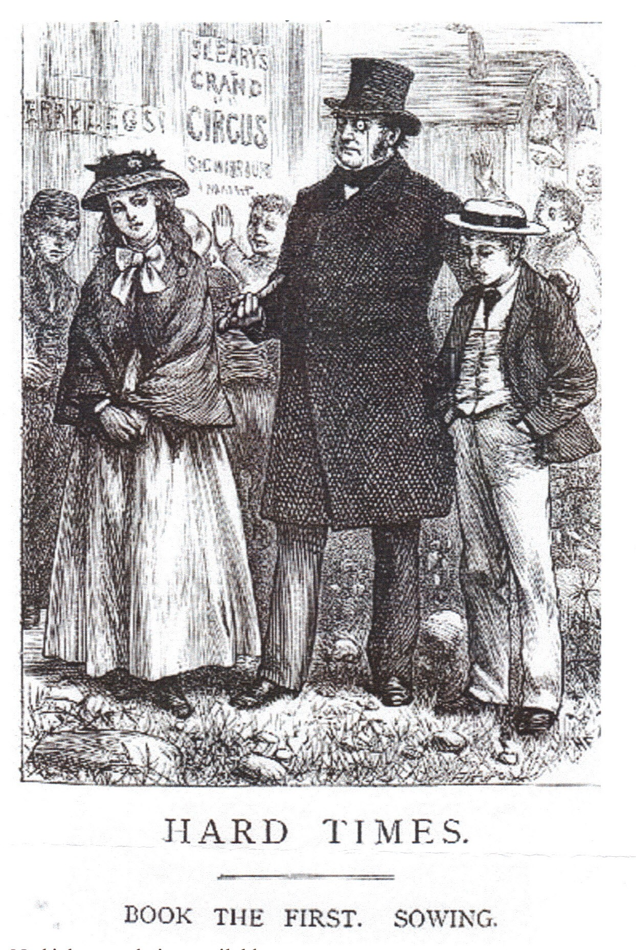 Title page vignette of Hard Times by Charles Dickens. Thomas Gradgrind Apprehends His Children Louisa and Tom at the Circus